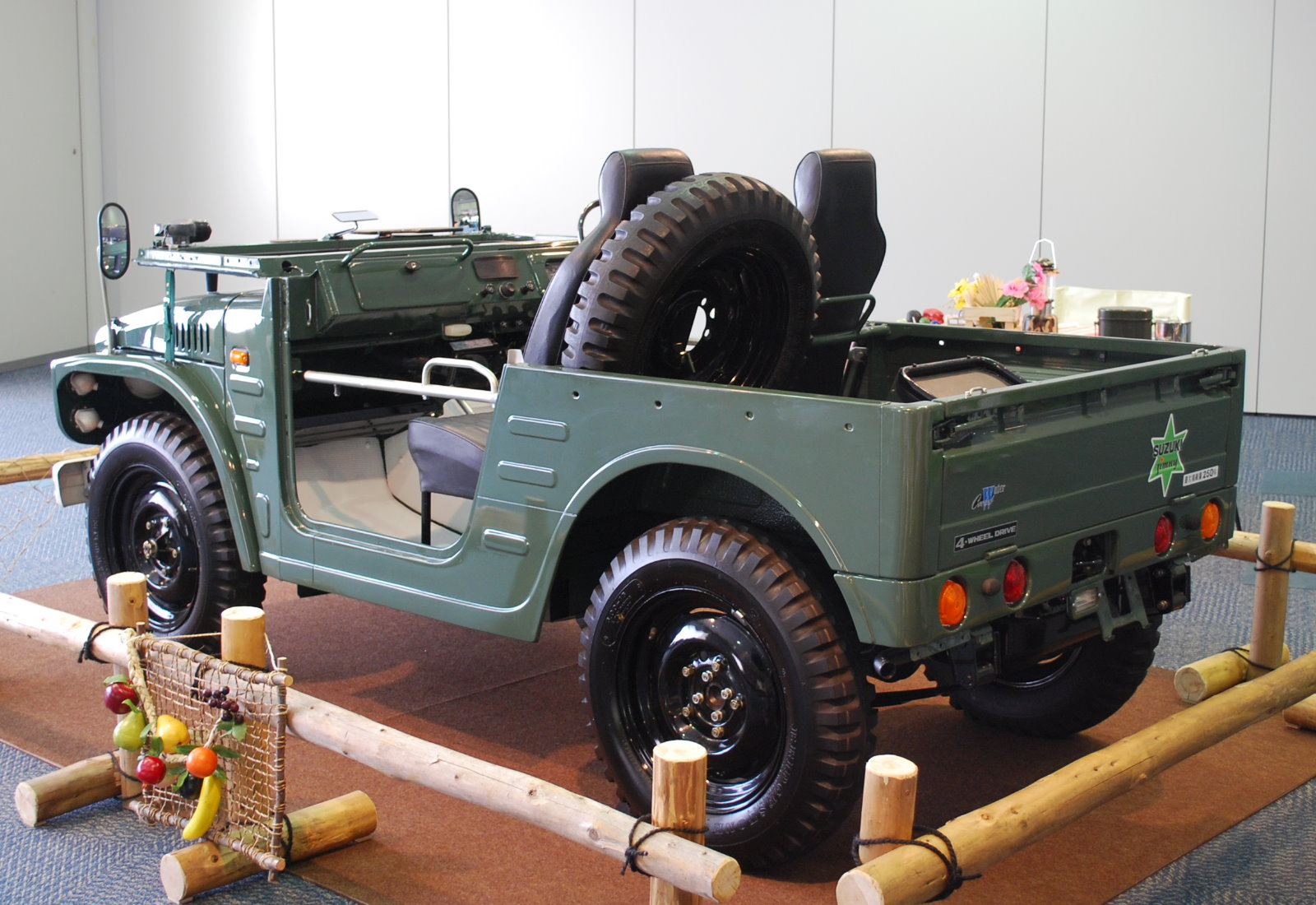 1st generation Suzuki Jimny Model LJ20-2(?)